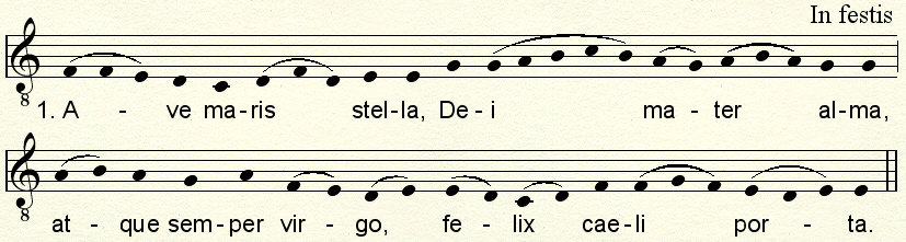 Own engraving after Solesmes hymnary